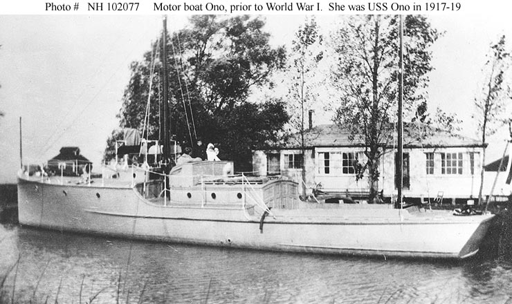 Civilian motorboat Ono prior to her United States Navy service as patrol boat USS Ono (SP-128)